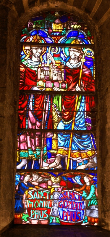 Basiliek van Onze-Lieve-Vrouw-Tenhemelopneming, Maastricht, The Netherlands - stained glass with a depiction of saint Monulphus and saint Gondulphus by Daan Wildschut (1952)